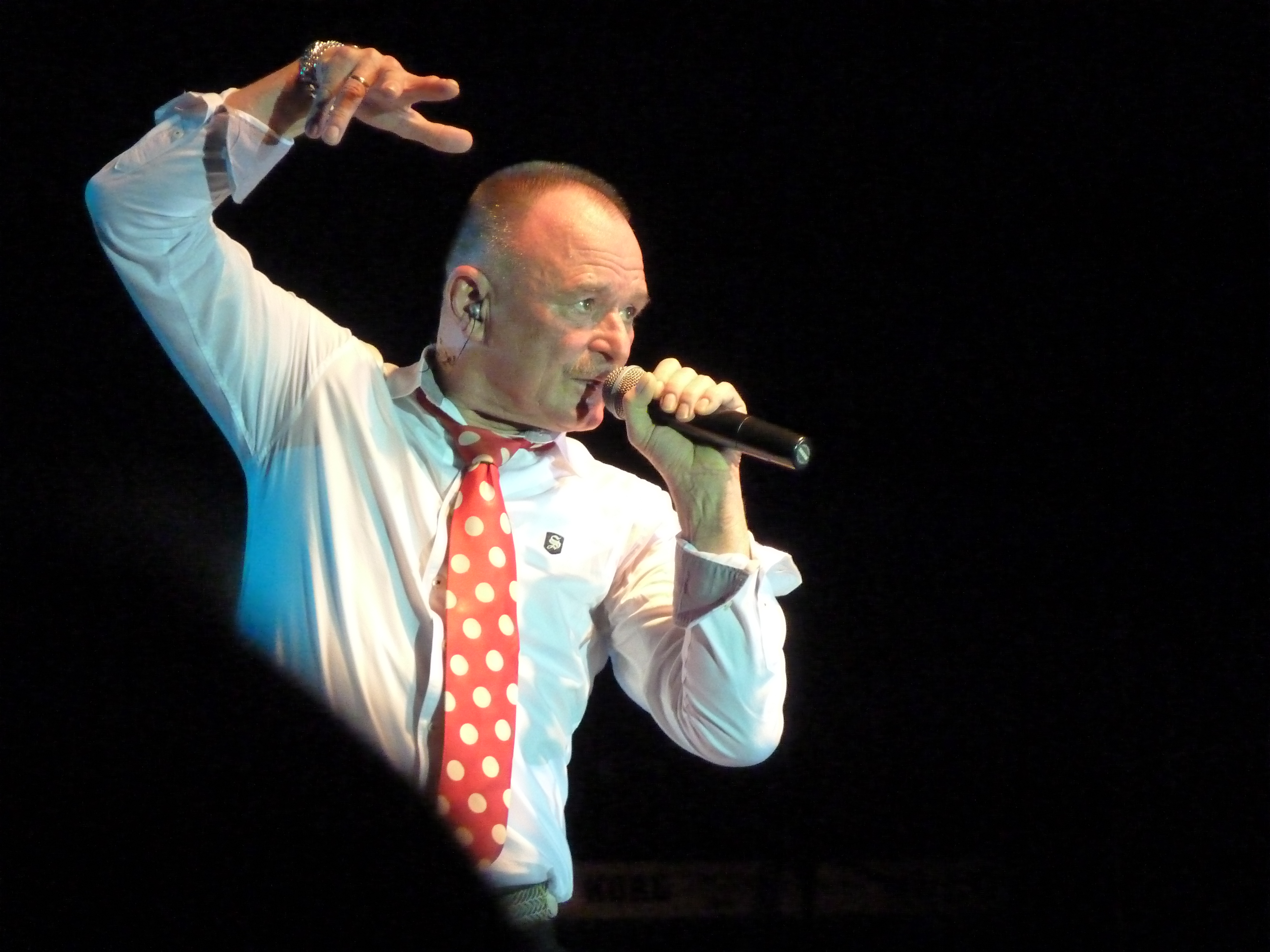 Live on the 16th of March, 2013. Budapest, the Petőfi Csarnok (PECSA, Petőfi Music Hall). Beatrice band celebrated its 35th birthday. Nagy Feró, Benkő László, Zselencz Zsöci László, Gidófalvy Attila. ©© Derzsi Elekes Andor, Budapest, 2013, You are authorised to use these photos and vids under Creative Commons – even for commercial, for profit purposes. Photos must be attributed to Derzsi Elekes Andor. All of the photos and vids in the Metapolisz DVD line are under Creative Commons and can be used even for commercial – for profit – purposes. Recommended Citation Derzsi Elekes Andor: Metapolisz DVD line A felvételek 2013. Március 16 –án készültek Budapesten, a PECSÁban. (Petőfi Csarnok, Petőfi Music Hall). Nagy Feró, Gidófalvy Attila. Magyar rockegyüttes. A Nagyvárosi Farkas, Utálom az egész huszadik századot, Tízezer lépés, Ha én szél lehetnék, Petróleum lámpa – Benkő László, Zselencz László.